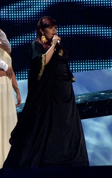 Vania Fernandes (Portugal) performing Senhorado Mar at second semi-final, Eurovision Song Contest 2008 in Belgrade, Serbia, May 22, 2008.